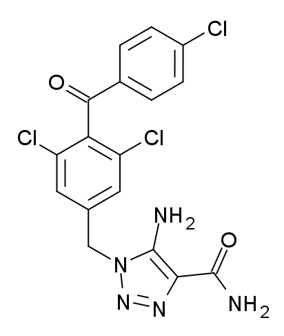 Structure of carboxyamidotriazole